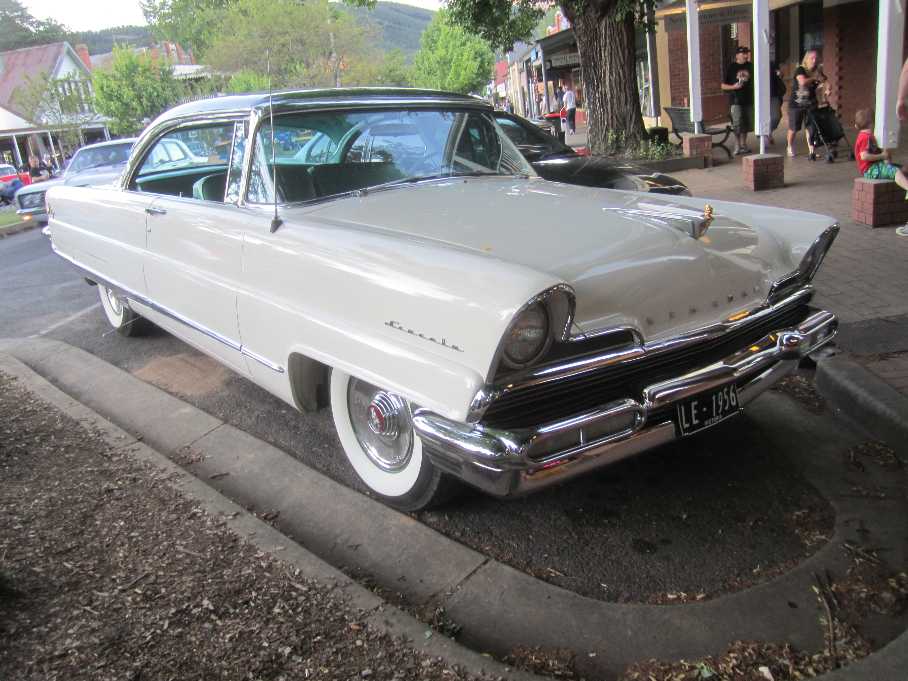 The Capri was built from 1952-59, sharing body style with the Ford Victoria. Available as Hardtop only in 1956 but Sedan and Convertible were available in 1955. Engine; 285 hp 368 cu in V8